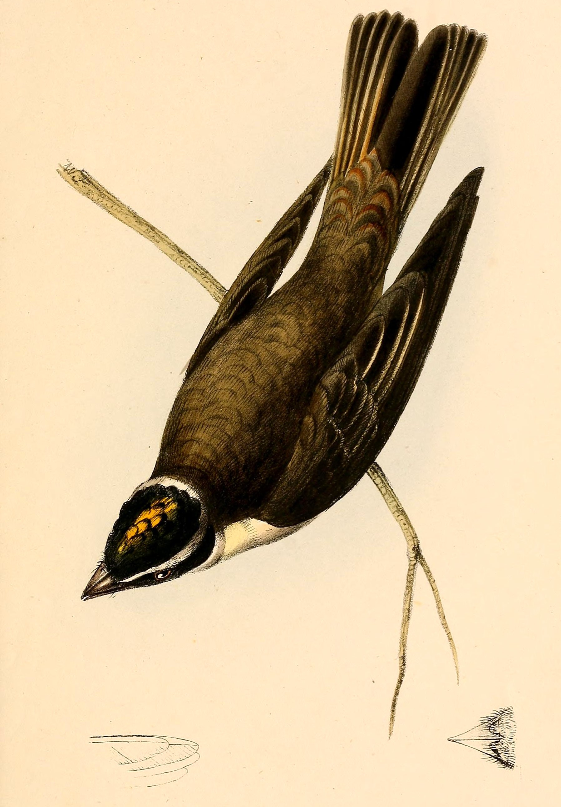 Tyrannus circumcinctus = Legatus leucophaius leucophaius (Subspecies of Piratic Flycatcher)